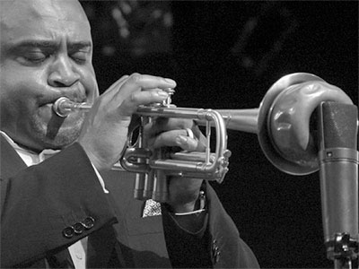 Terell Stafford performing in Aarhus Denmark 2012